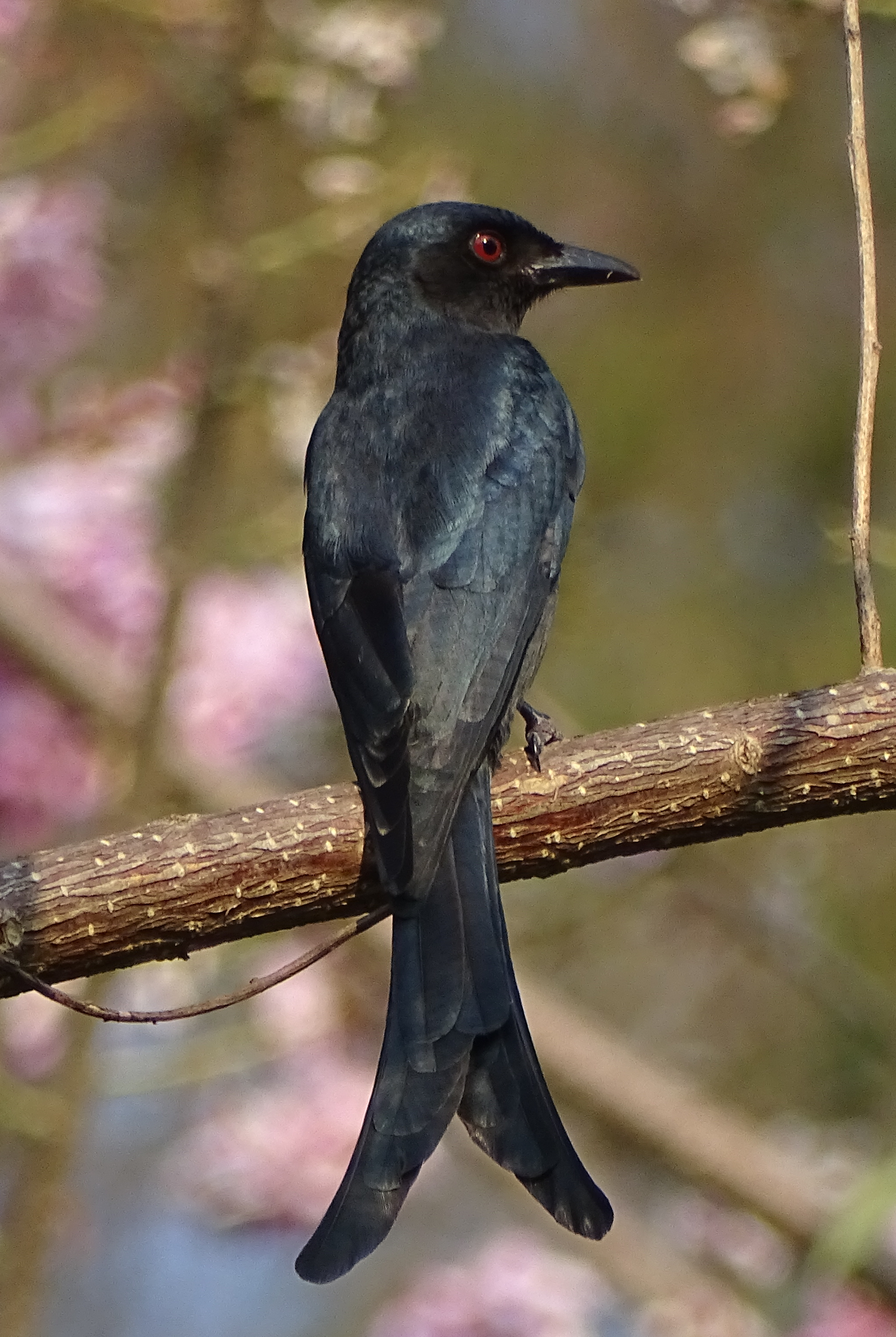 Ashy Drongo from Ezhimala